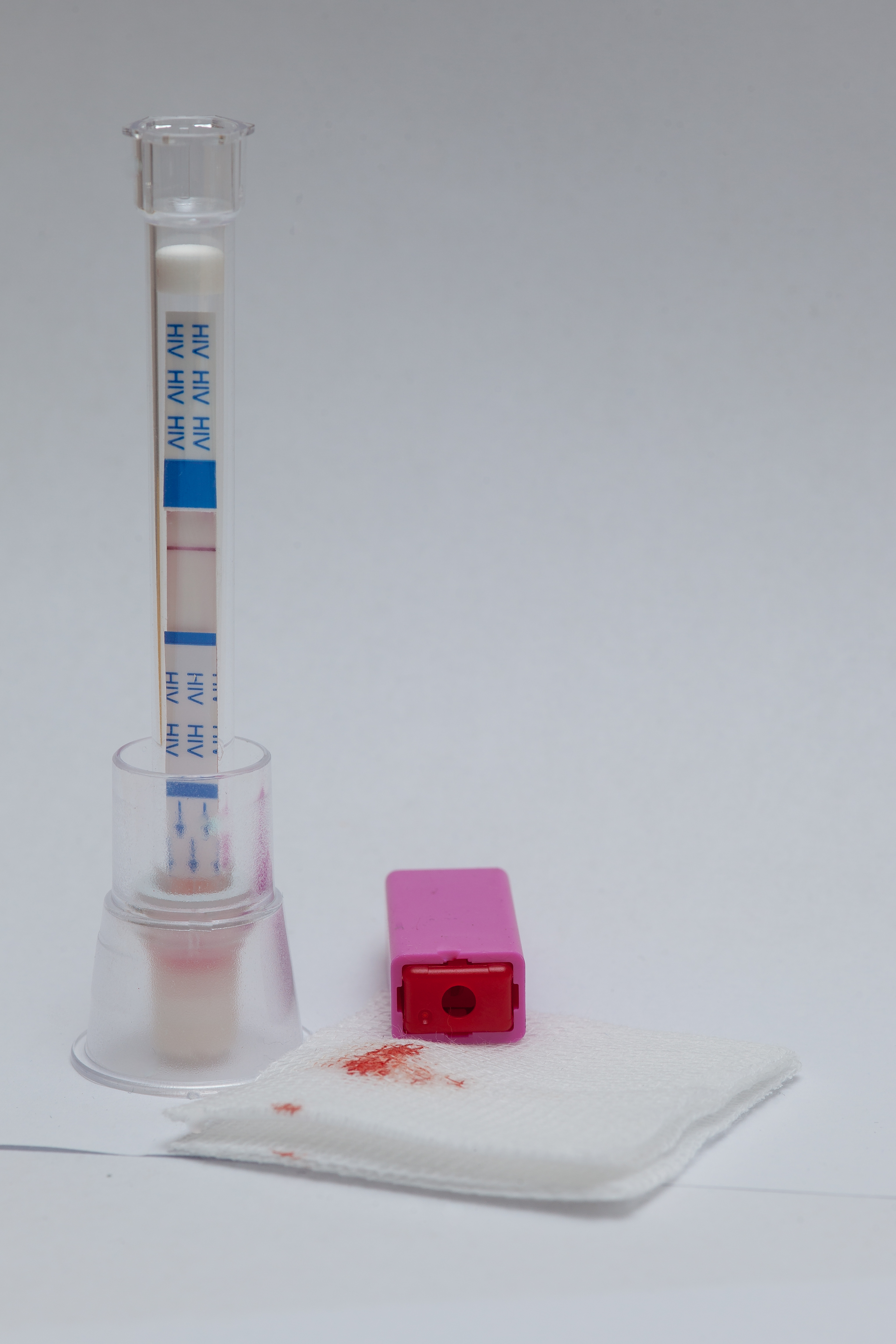 VIH self-testing set for the detection of an HIV infection with the non-reactive result; image taken in Czechia in April 2020